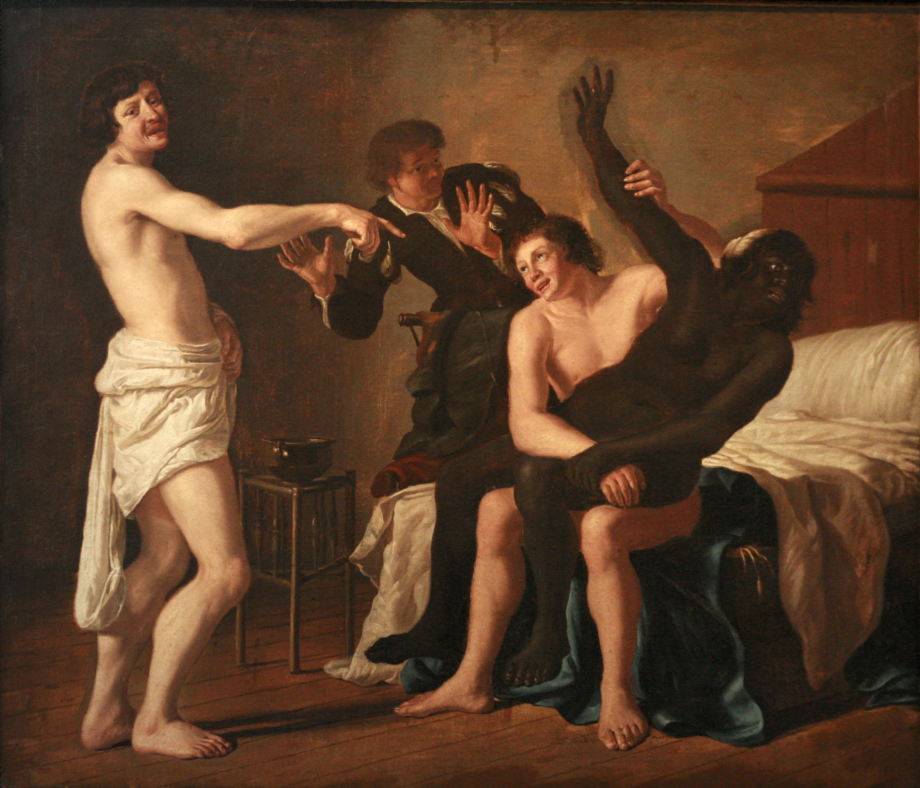 Rape of the negro girl